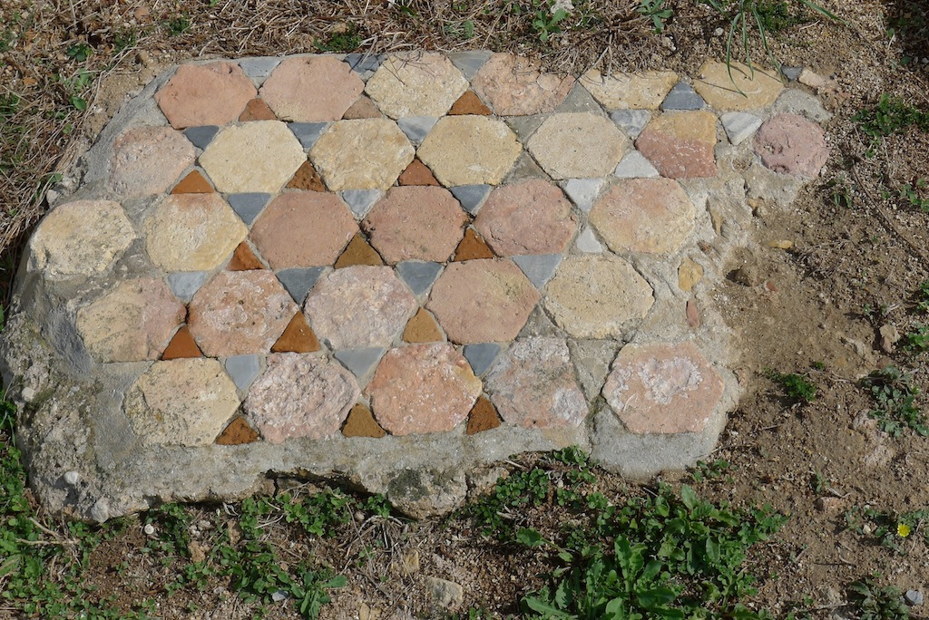 Ground mosaic of Agios Filon near Karpasia, Cyprus.